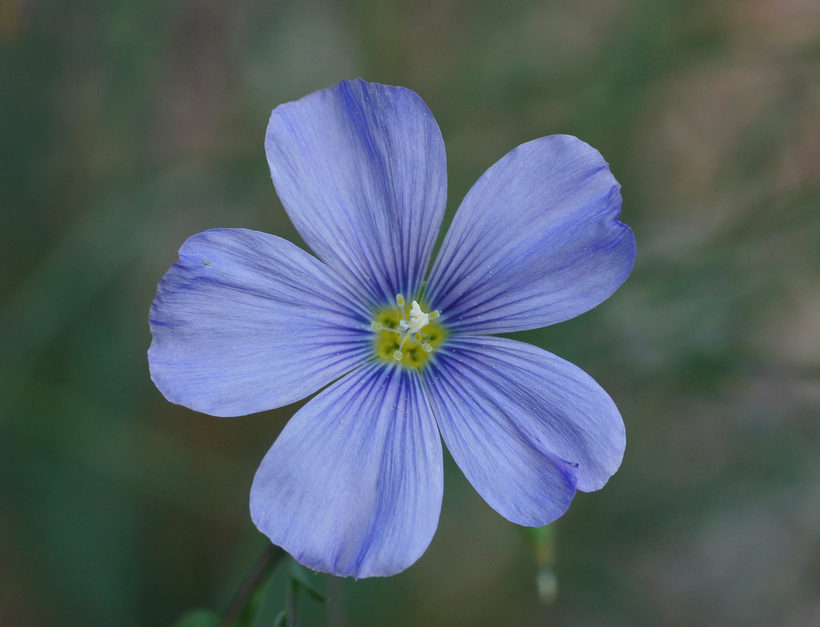 Picture of a flower of the Blue Flaxen (Linum perenne lewisii en 'Appar'). Photo taken in the Pond Garden Bed 4 at the Chanticleer Garden where the species was identified.